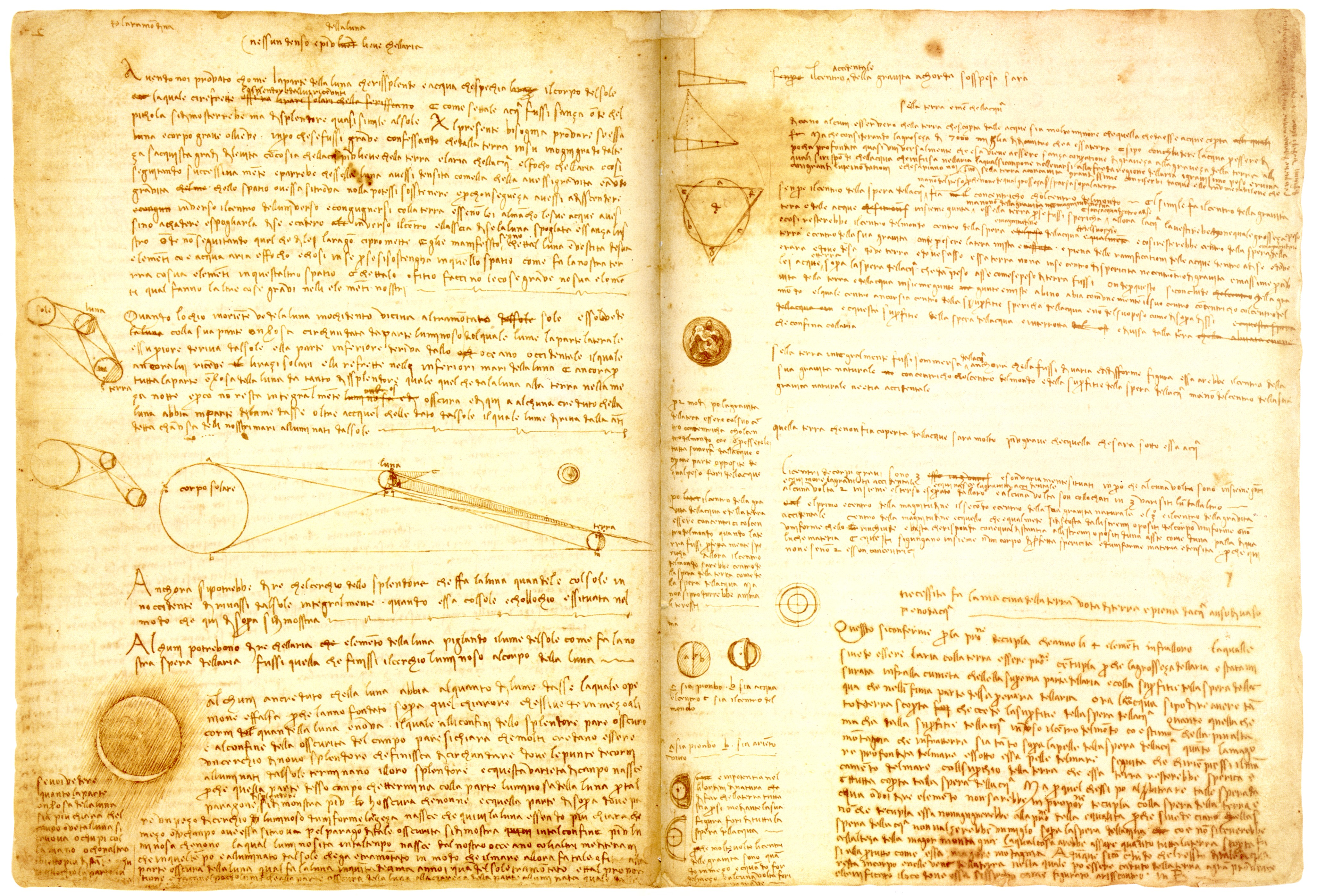 Codex Hammer (Leicester) seen with mirror Hammer 2A – Fol.2r (left) and Fol.35v (right)